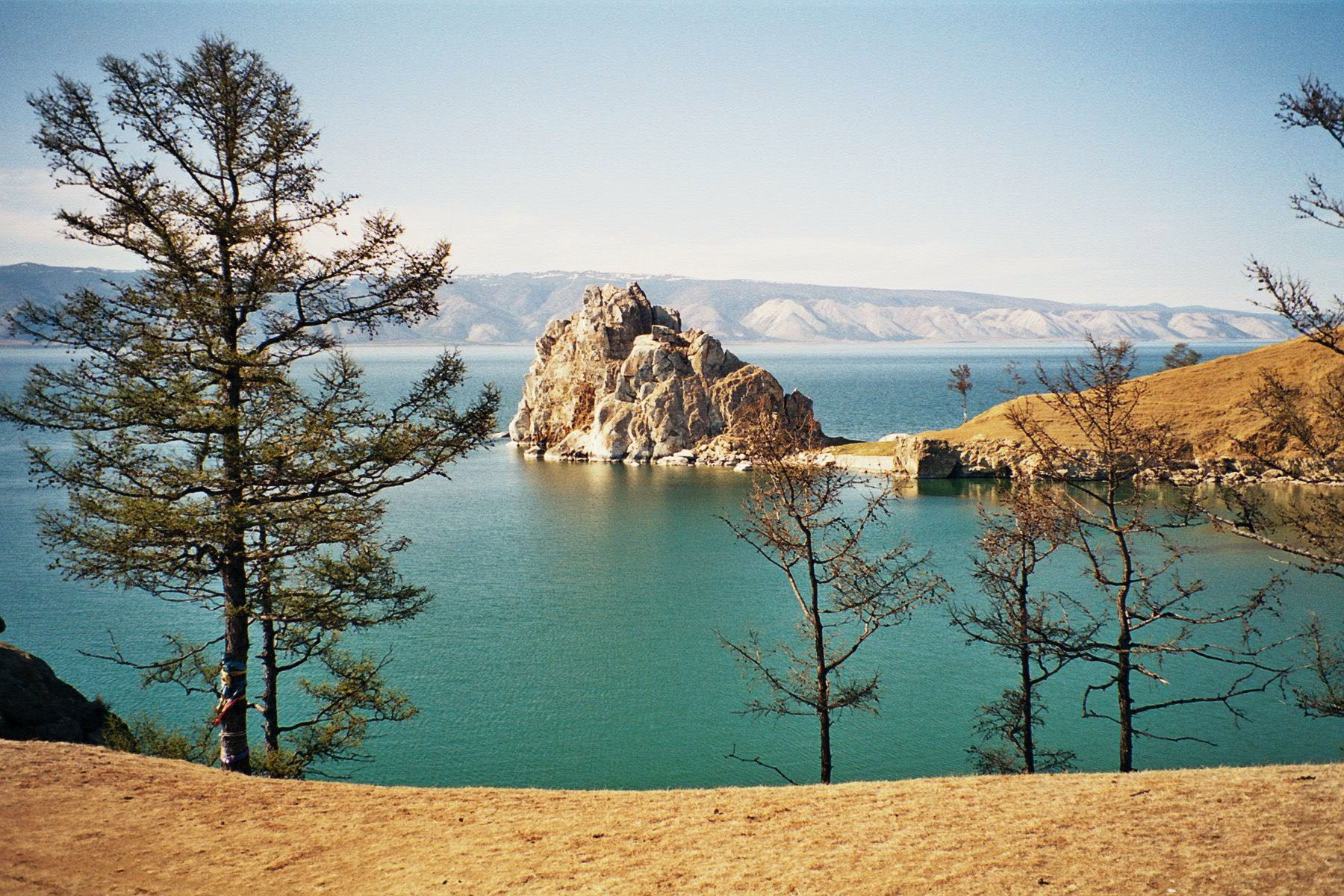 Shaman Rock, Olchon Island, Lake Baikal, Russia, Russland